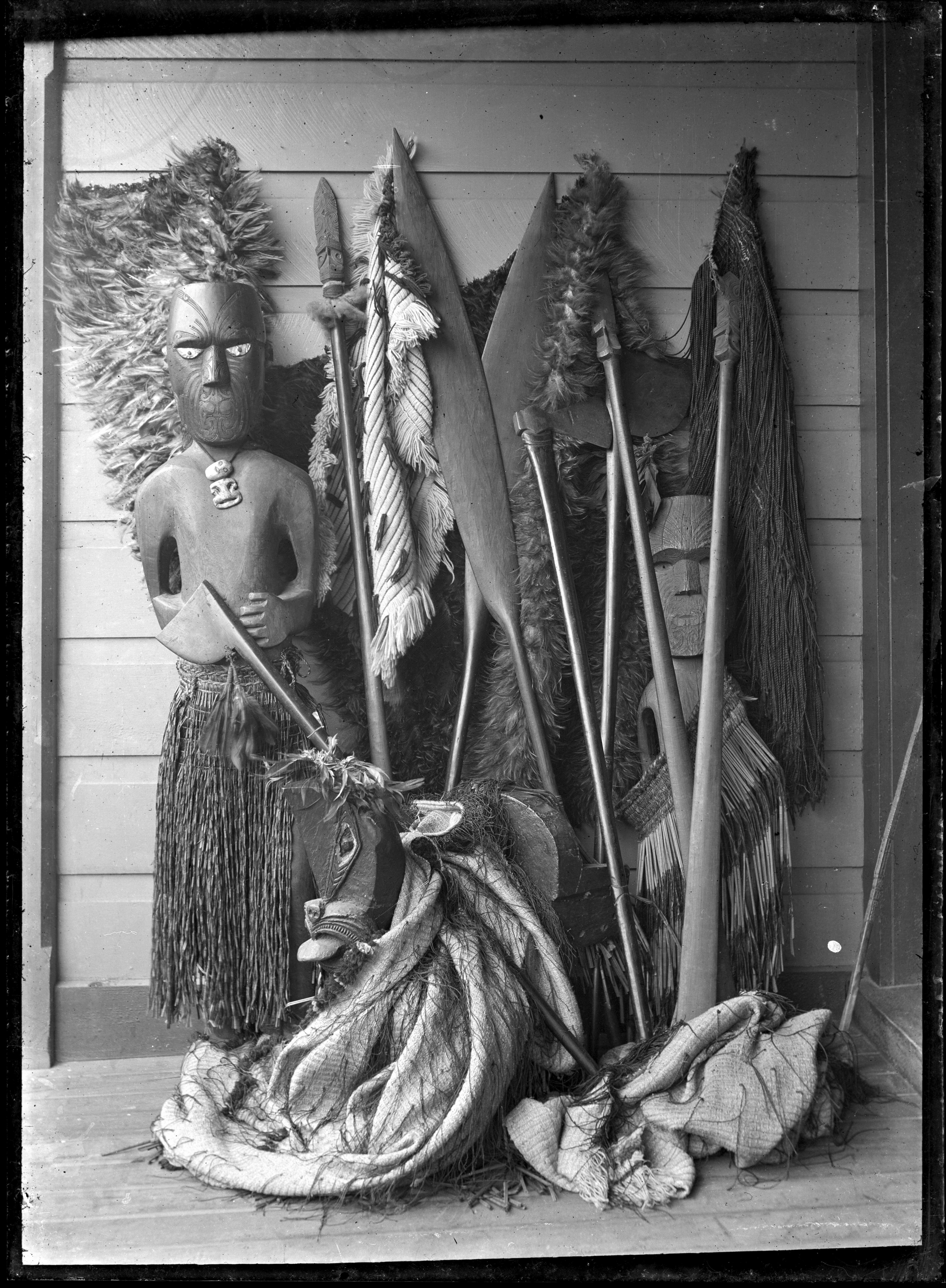 Traditional Maori wood carving. The figure, with paua shell eyes, wears a piupiu (flax garment worn around the waist), and a tiki, and is alongside a display of weapons and cloaks. Photograph taken by Albert Percy Godber circa 1900. For other photographs with the same figure included, see APG-0095-1/2-G, and APG-0096-1/2-G, and APG-0097-1/2-G.